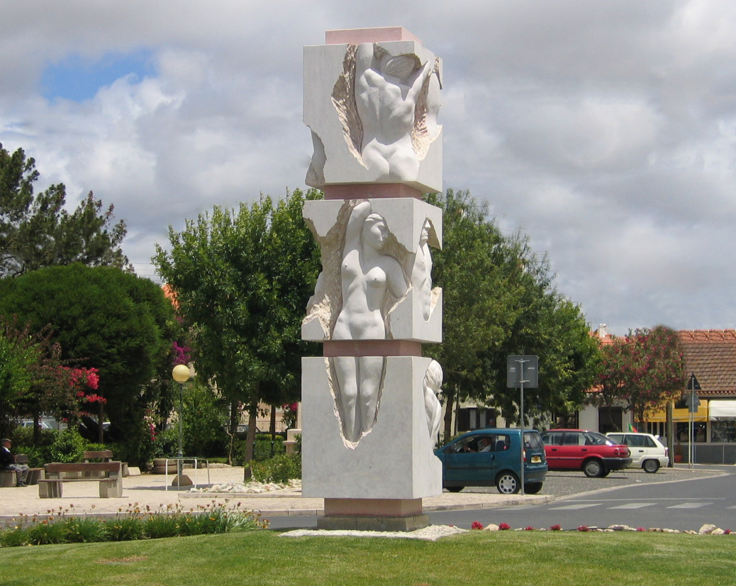 Montelavar - Sintra - Portugal